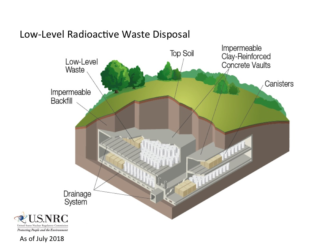 Infographic from 2018-2019 Information Digest, NUREG 1350, Volume 30. Published in August 2018. For More Information go to: 2018-2019 Information Digest Visit the Nuclear Regulatory Commission's website at . Photo Usage Guidelines: Privacy Policy: . For additional information, or to comment on this photo contact: OPA Resource .